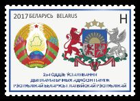 25th anniversary of diplomatic relations between the Republic of Belarus and the Republic of Latvia.